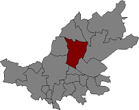 Location of el Pla de Santa Maria in Alt Camp